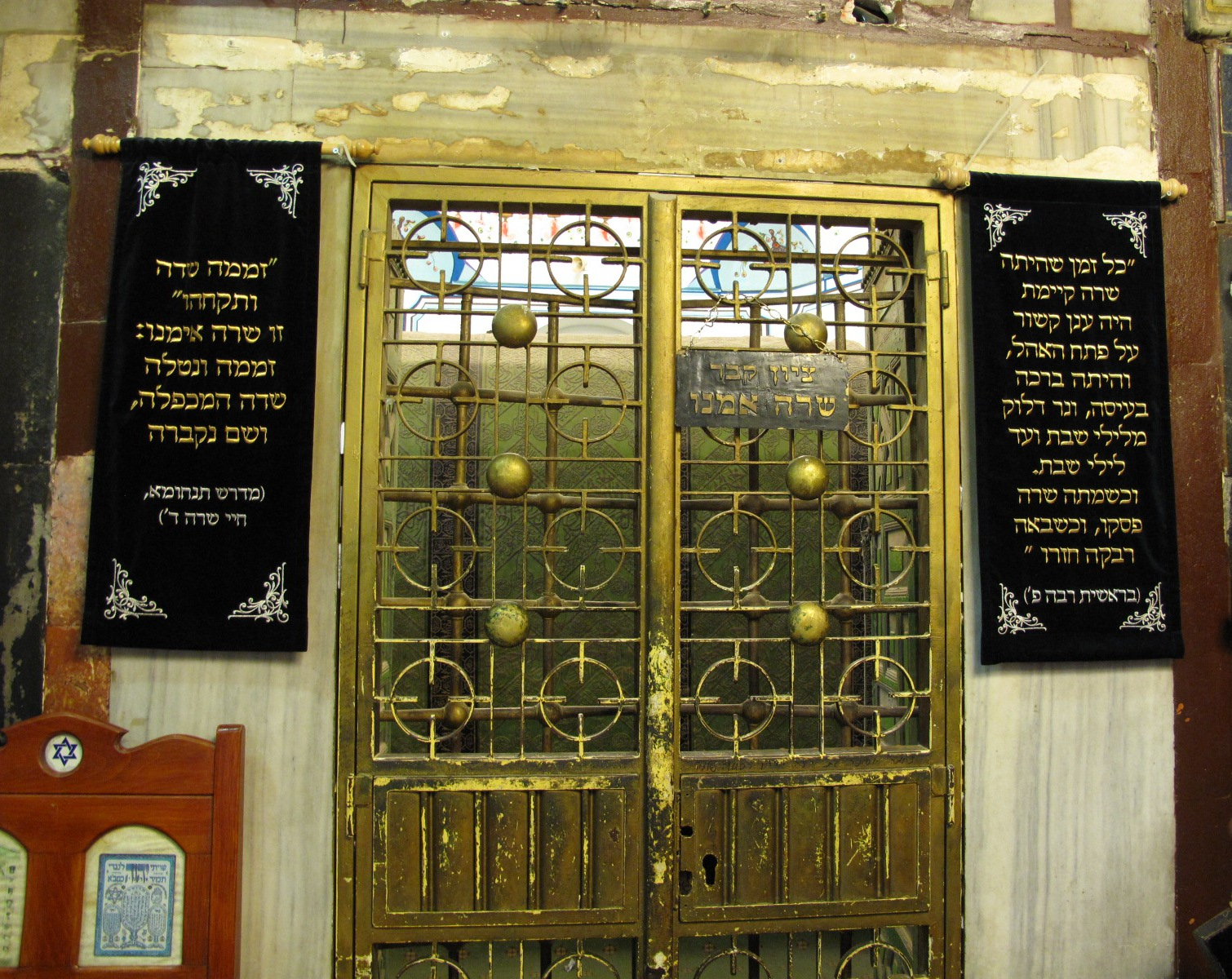 Cenotaph_of_Sarah - northwestern_view Photo taken by myself in the Cave of the Patriarchs (Hebron) on October 25, 2010